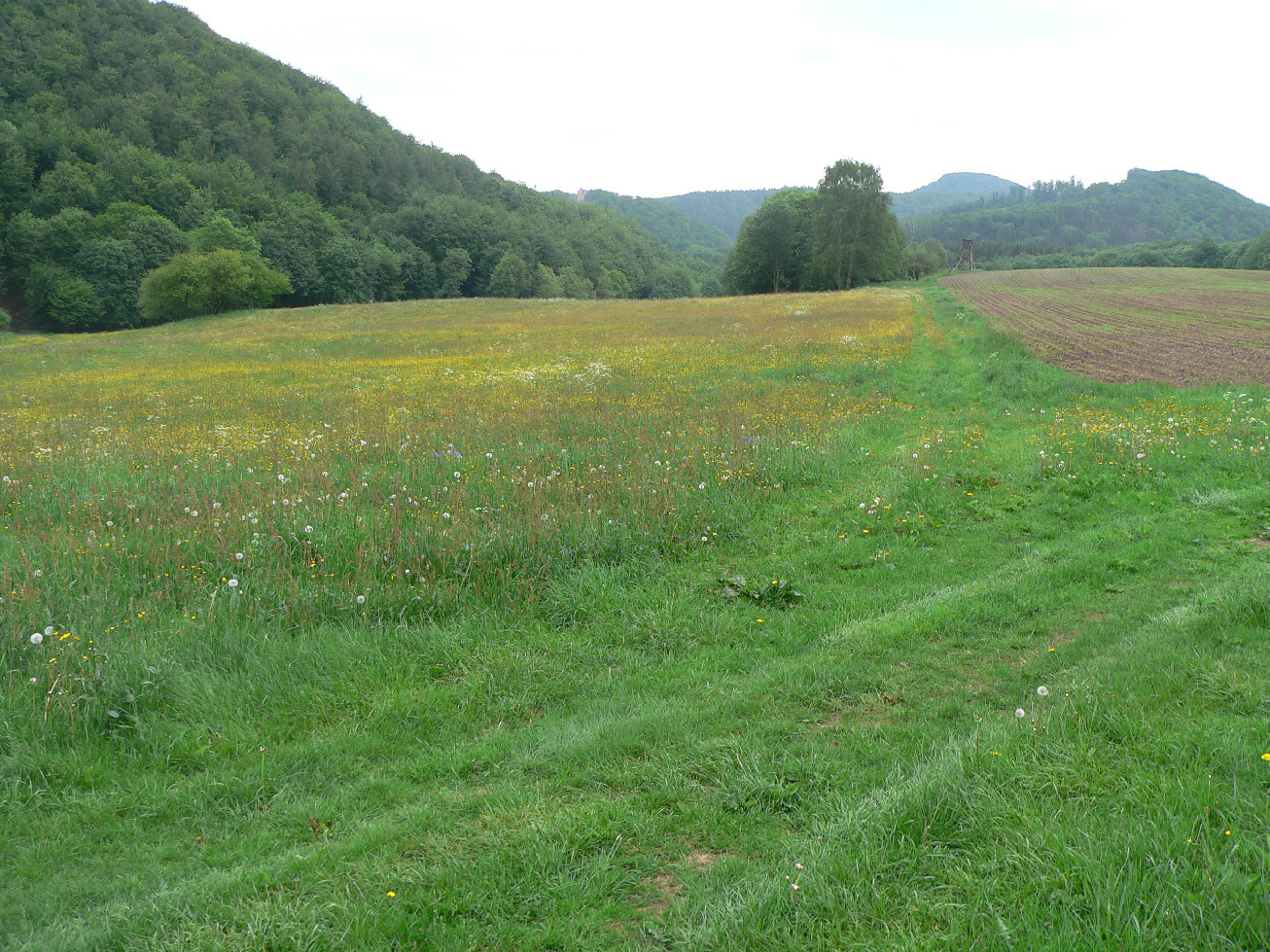 This simple field is a historic place, the monastery Weissenborn was foundet first in the Mönchsfeld.